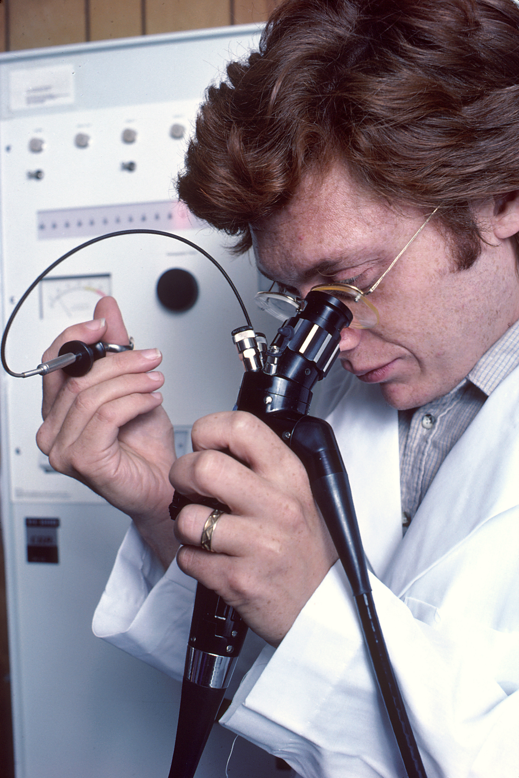 Pictured is a physician using a remotely controlled endoscope. He is looking through a microscope-like eyepiece to monitor his actions while using small brushes and knives to take a biopsy.